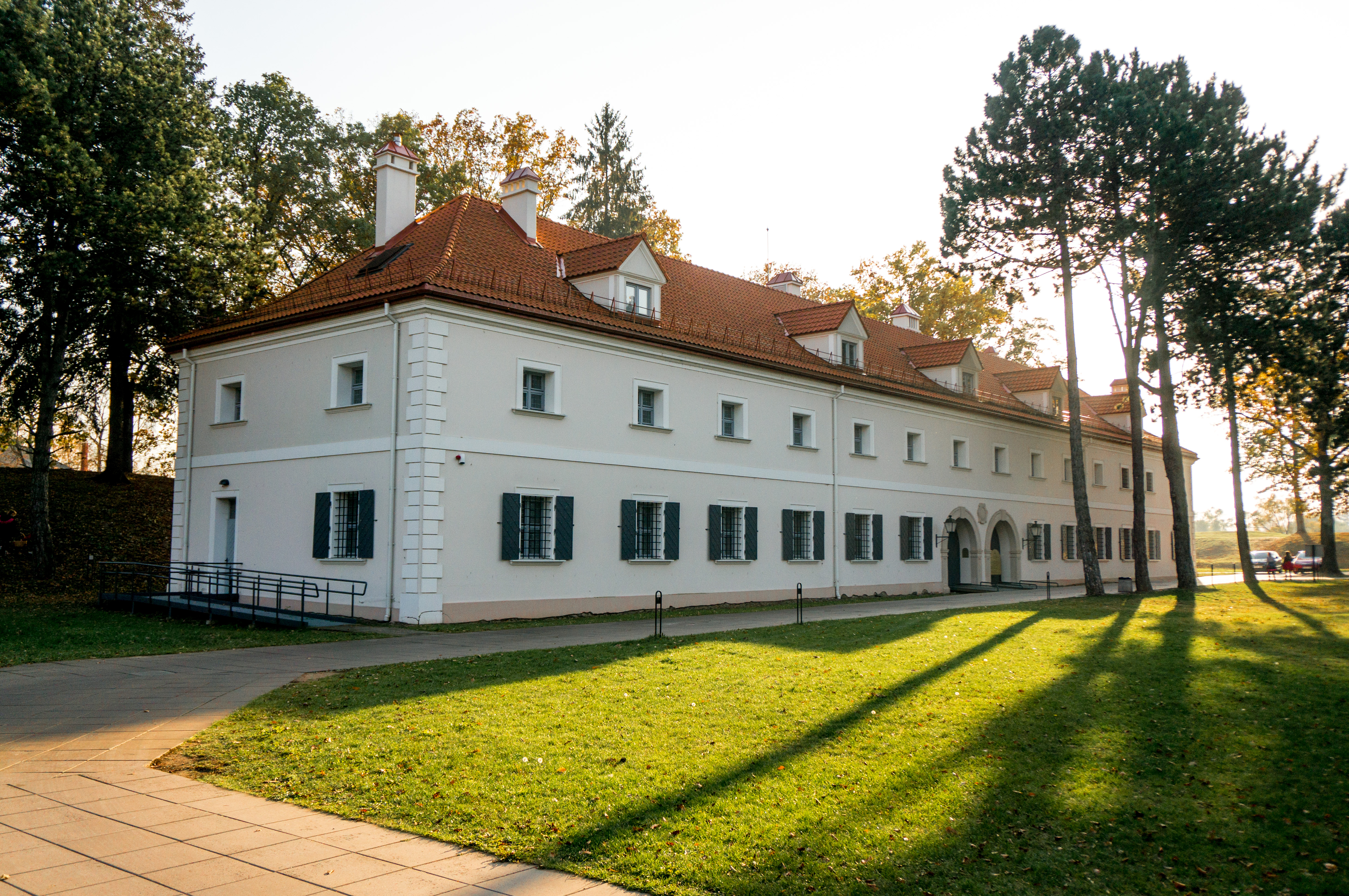 Birzai Castle reconstructed Arsenal in 2018